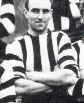 Photograph of Herbert Cheffers in 1907